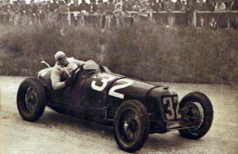 Entry #32 in XIX Grand Prix de l'Automobile Club de France (ACF) on June 11, 1933, was the italian Giuseppe Campari in a Maserati 8C 2300, entered privately by himself. He won the race.[1]